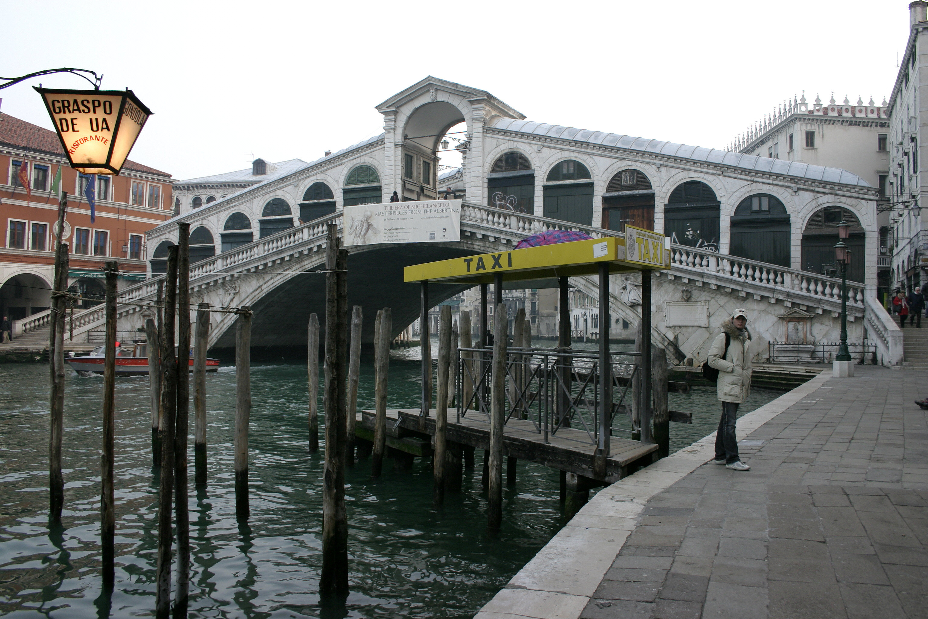 Venice – Rialto Bridge